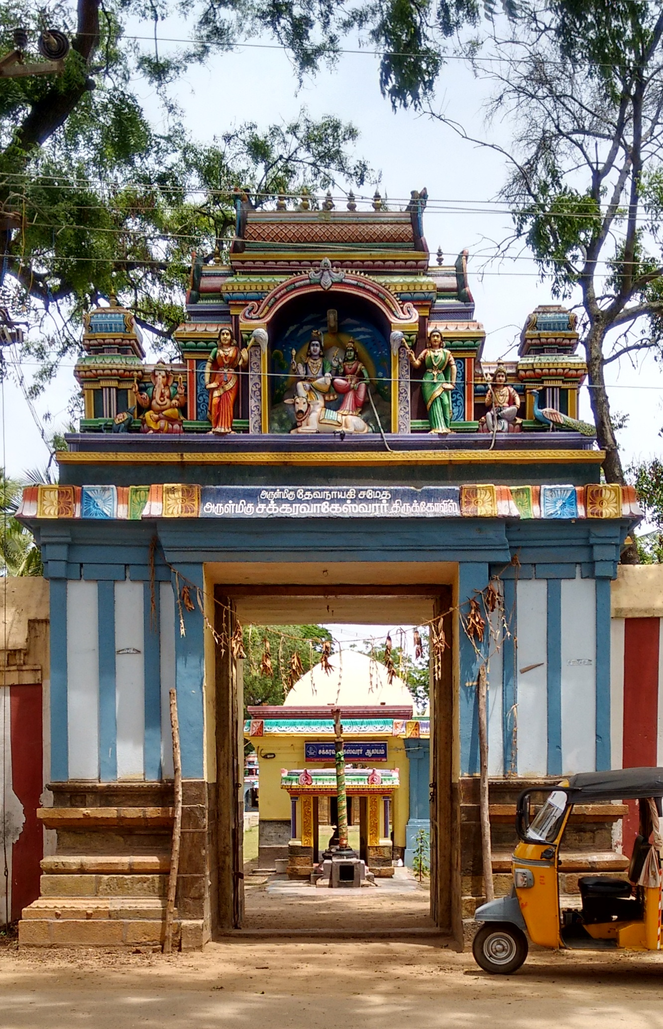 சக்கராப்பள்ளி சக்கரவாகீஸ்வரர் கோயில் Chakkarappalli Chakravahiswarar temple